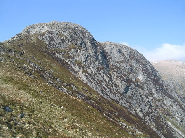 Craig yr Ysfa As seen from below, on Bwlch Eryl Farchog.